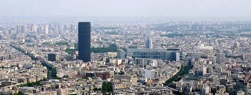 View over the Paris 14th arrondissement from the Eiffel Tower. This image has been truncated from another photo from Wikimedia Commons which is mentioned below.